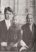 Belarusian poet and linguist Uładzimier Duboŭka in Cheboksary with his mother and son Algerd, 1935 Беларуская (тарашкевіца): Белрускі паэт Уладзімер Дубоўка ў Чабаксарах разам з сынам Альгердам і сваёй маці